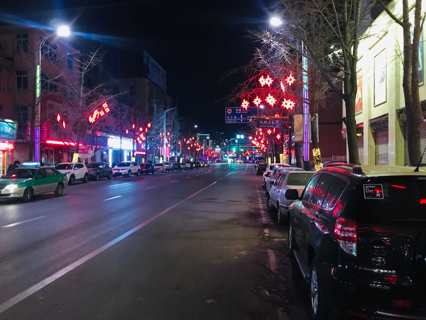 Dengtiemei Rd, Fengcheng